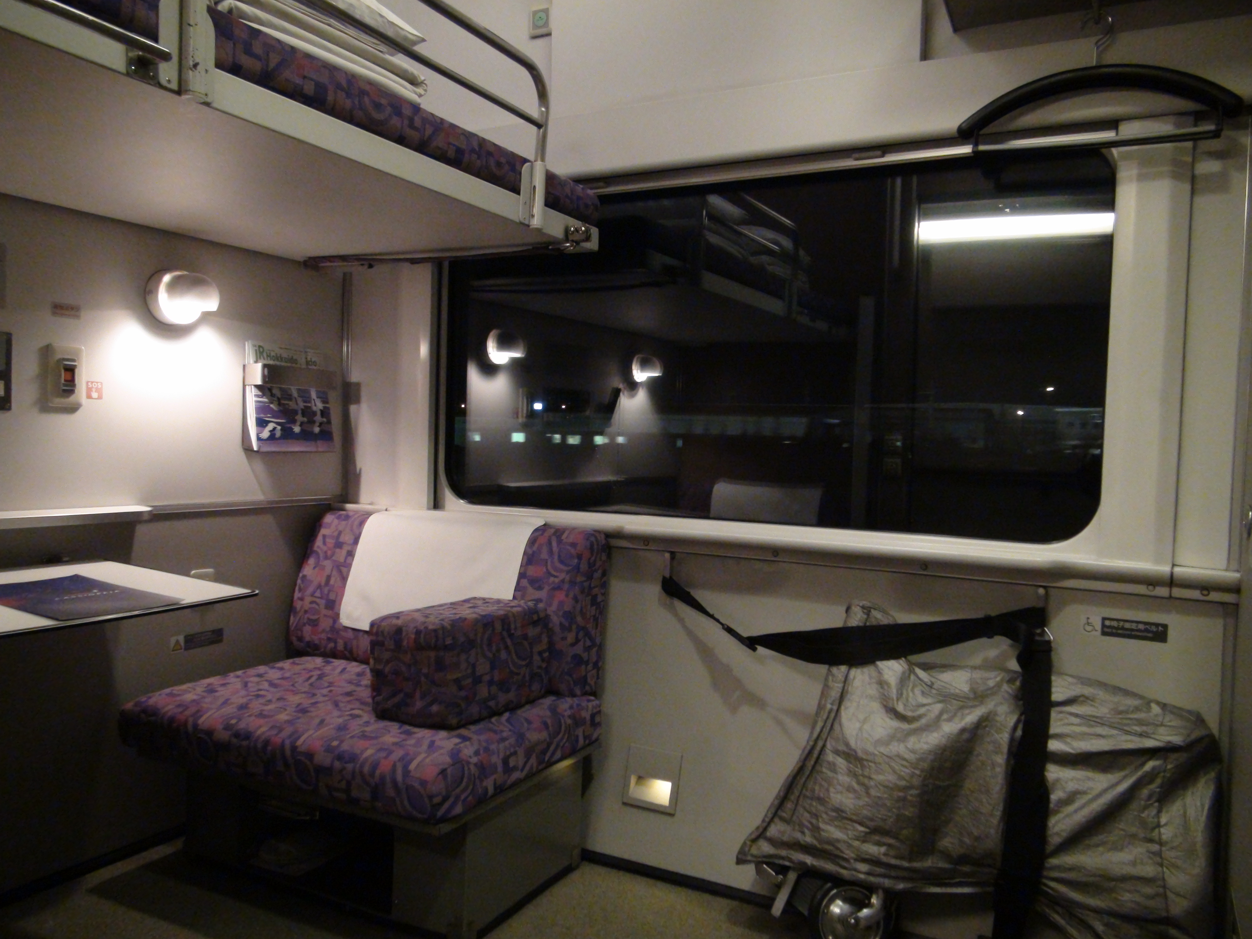 Cassiopeia twin bedroom compartment type